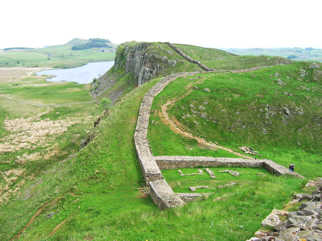 The Hadrian's Wall between Housesteads and Once Brewed National Park, a so-called milecastle can be seen at the bottom of the picture. / Der Hadrianswall zwischen Housesteads und dem Once Brewed Nationalpark. Vorne: ein sogenanntes milecastle.